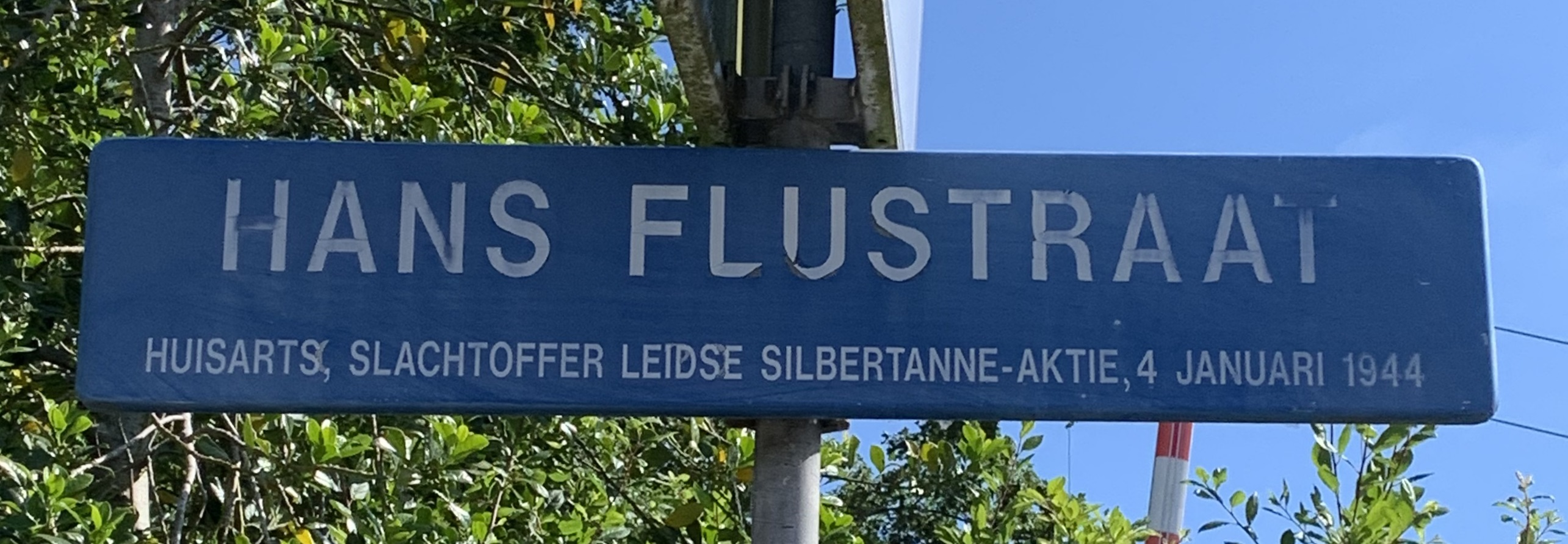 Street sign for Hans Flustraat, Leiden, The Netherlands.